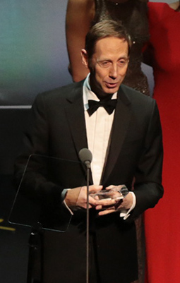 Isabella Blow Award for Fashion Creator: Nick Knight will be honoured with the Isabella Blow Award for Fashion Creator for his outstanding contribution to the global fashion industry. WINNER: Nick Knight Presented by Karlie Kloss